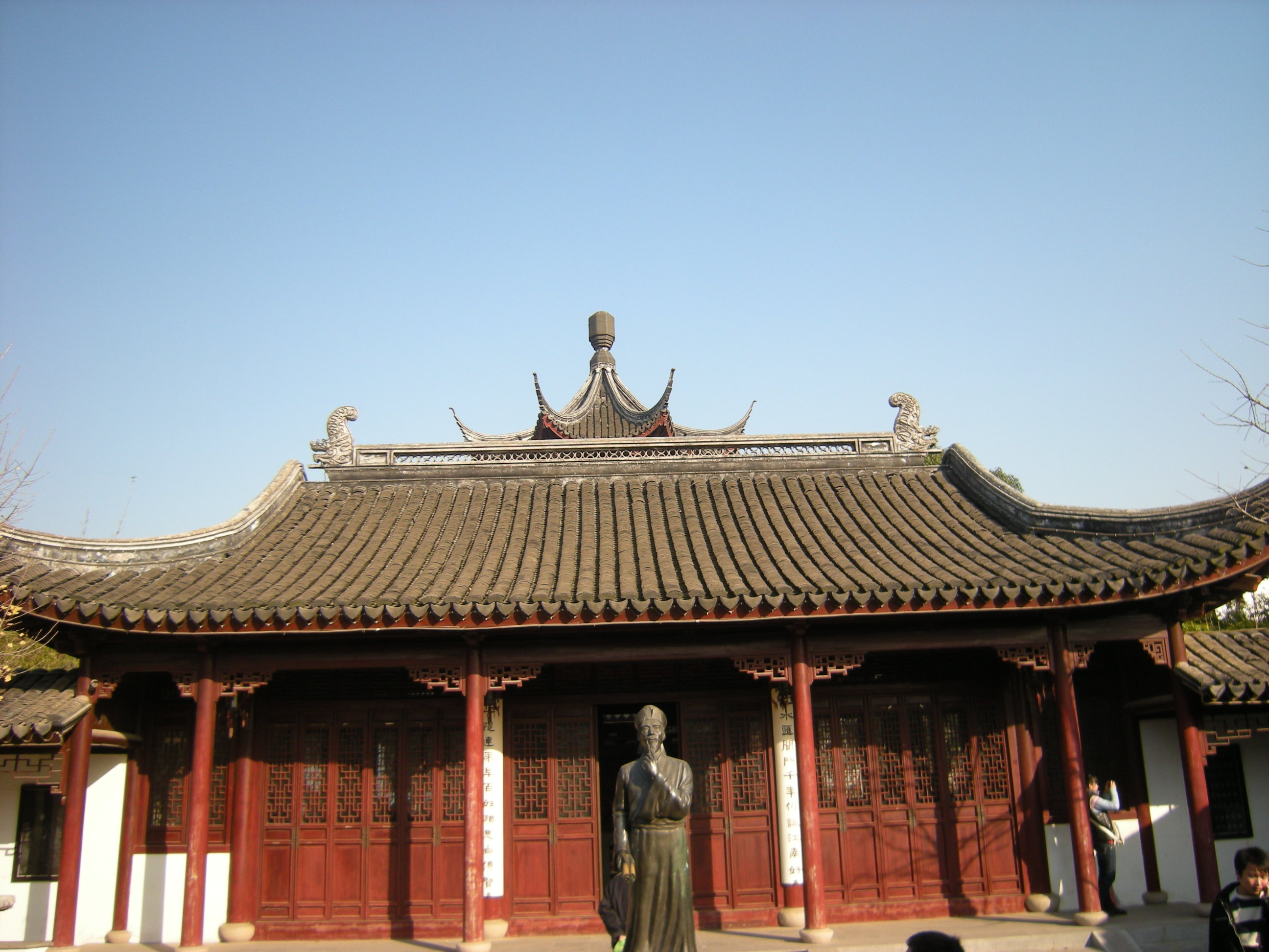 Bai_Juyi statue